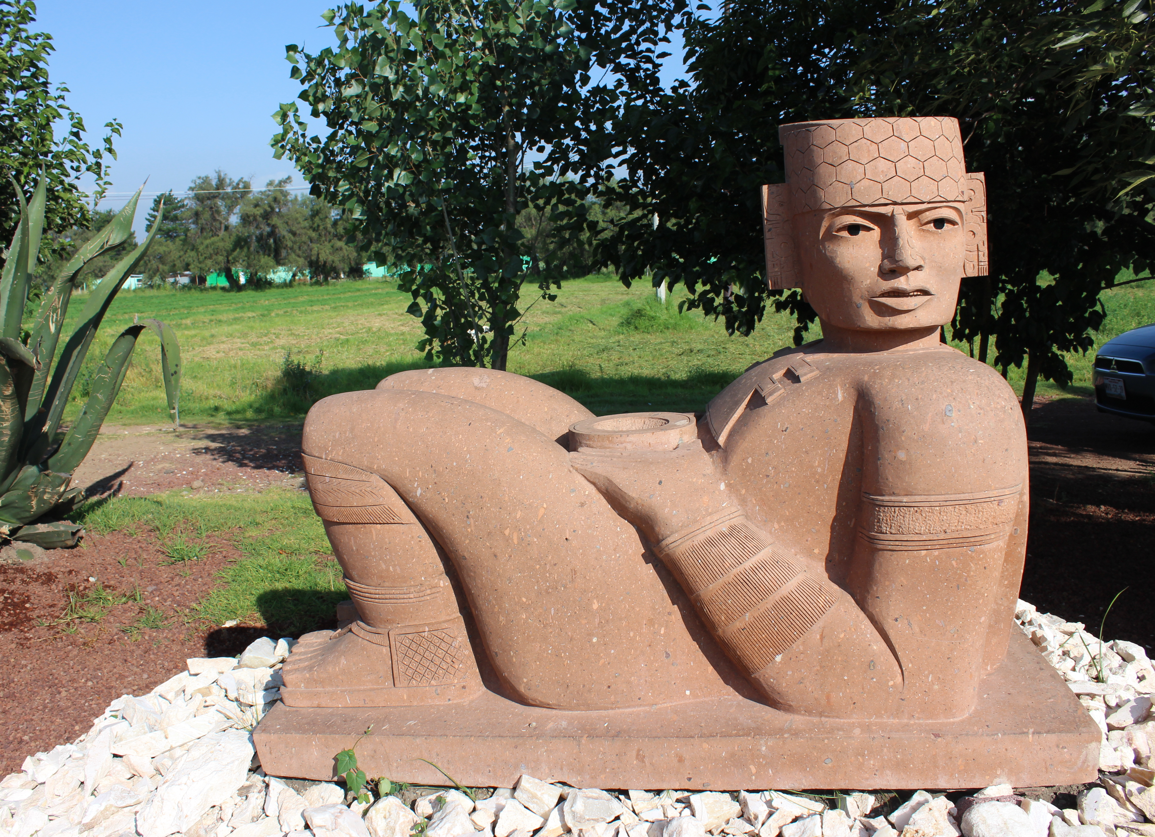 Chac Mool at Teotihuacan.